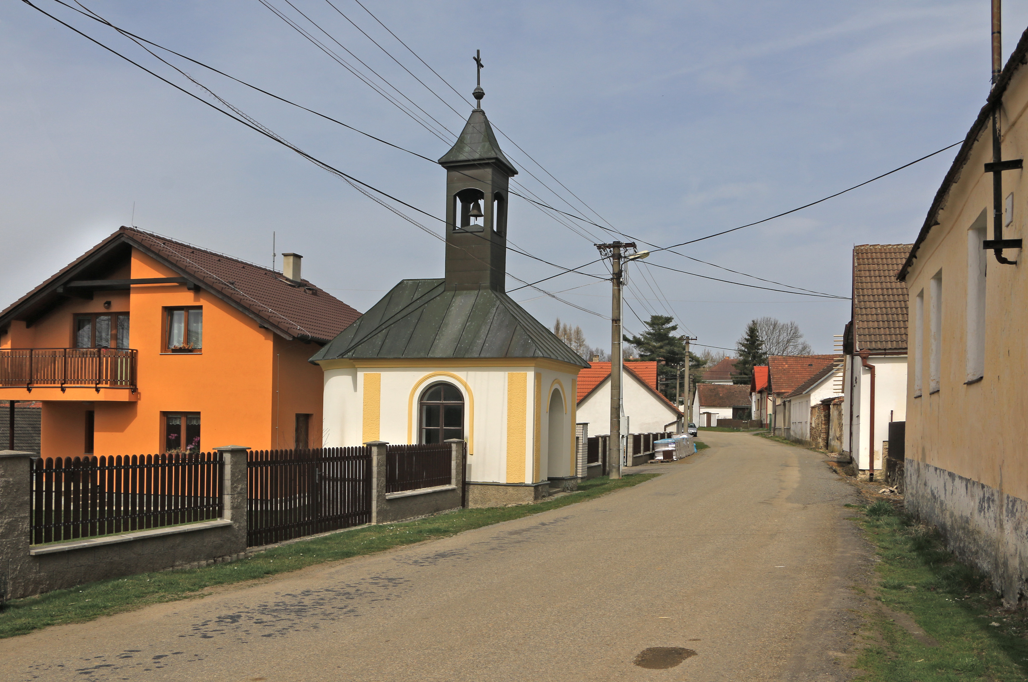 Main street in Vlčeves, Czech Republic.